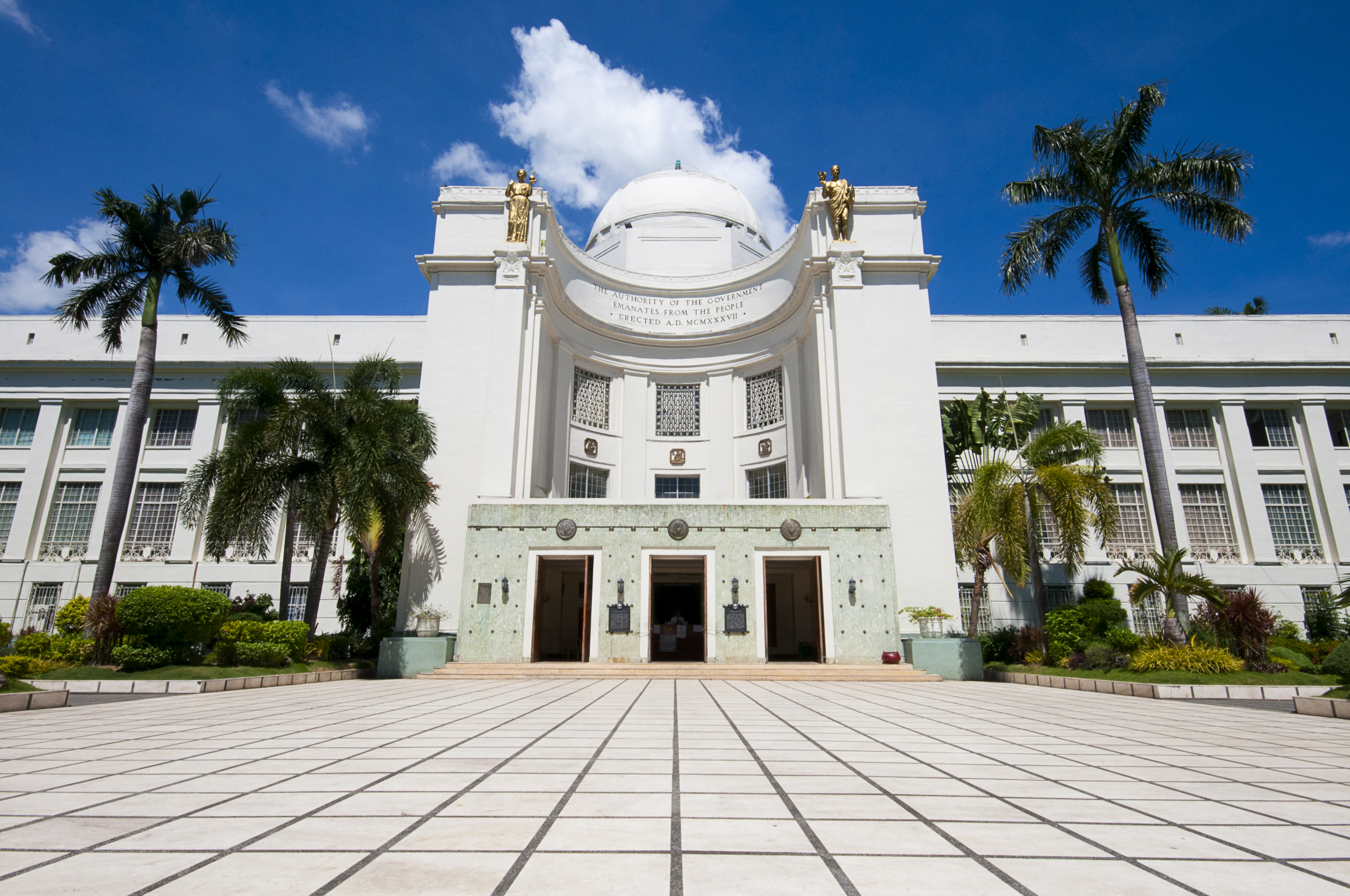 Capitol Compund in Cebu City, Philippines